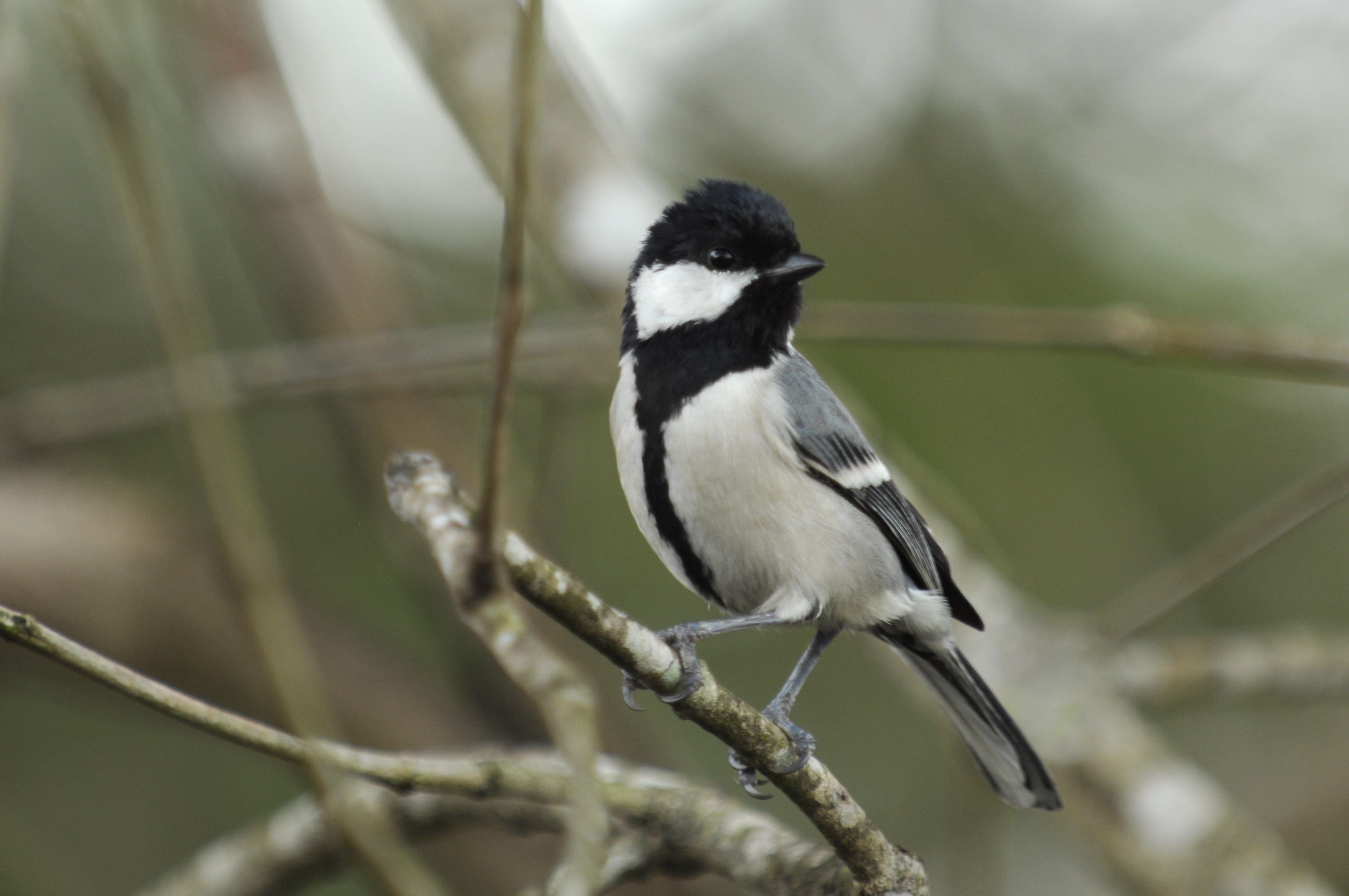 Cinereous Tit in BRT Sanctuary, Karnataka, India